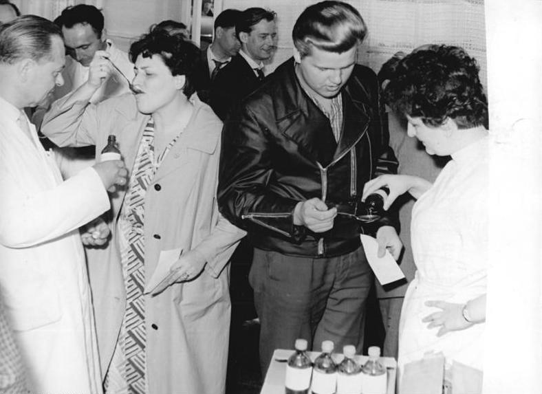 Berlin, Diptheria epidemic, immunization central photo Kohls-Löwe 25.4.1962. Preventative measures against diptheria. Berlin has begun distributing a preparation of phages to fight diptheria. Those eligible for the prophalactic measures are those who have sickened with diptheria, those who have had contact with people who were ill with diptheria, and those in areas of work from which diptheria could easily spread. Phages are "bacteria-eaters", virus-like things which can attack and destroy bacteria. UBz(particularly?): The preventative phage oral vaccination of all participants in the Peace Race was begun on the 24.4.1962, in the Berlin organizational offices of the Peace Race in the Walter-Ulbricht Stadium.